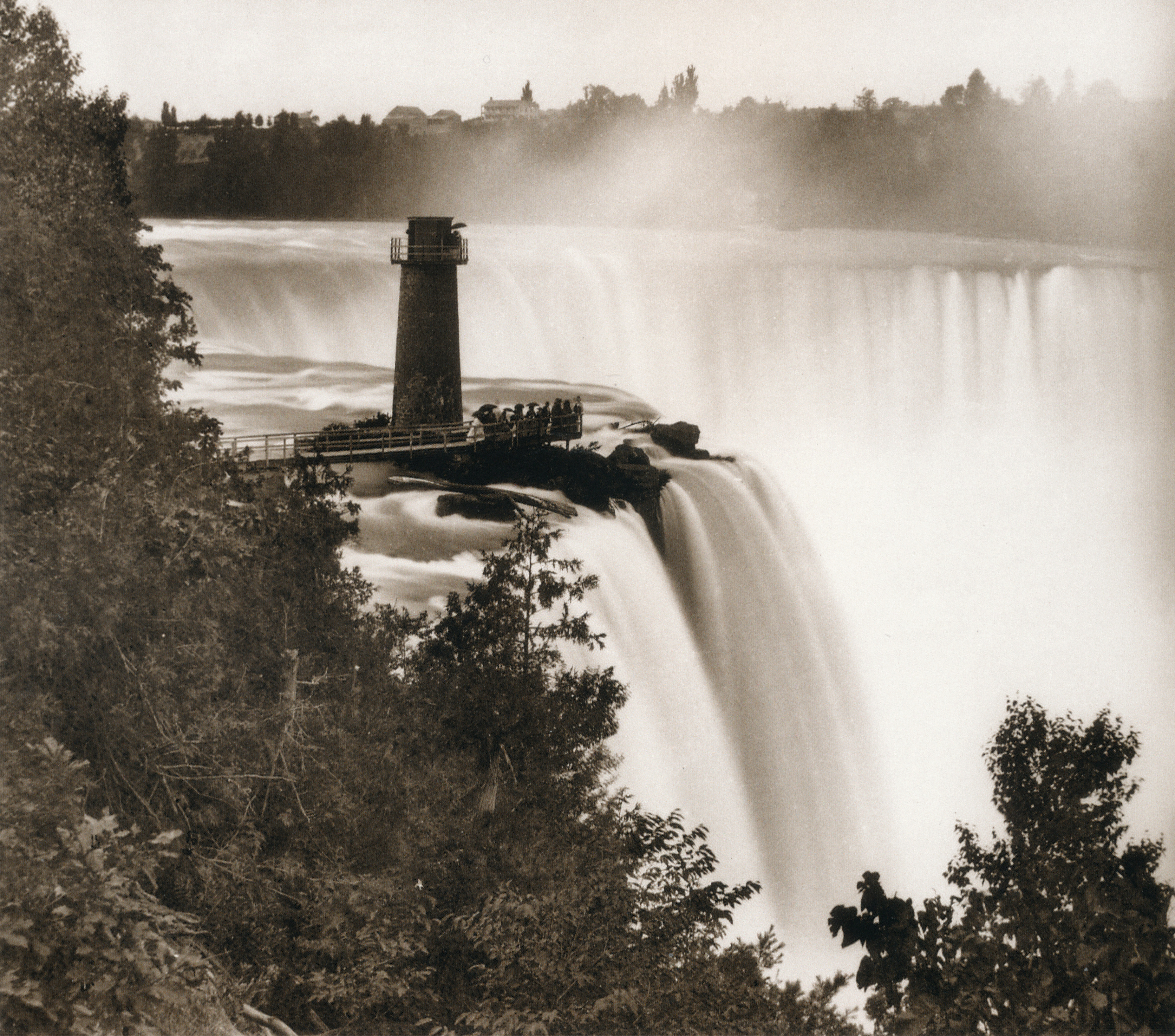 Terrapin point with Terrapin Tower in front of the Horseshoe Falls